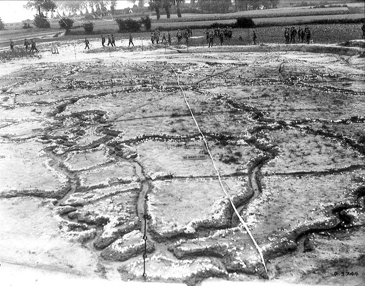 (W.W.I - 1914 - 1918) Model reproduction of German lines N.W. of Lens (36.C.N.1) September, 1918